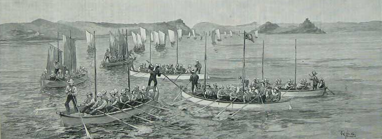 Wood engraving entitled The Nile Expedition for the Relief of General Gordon